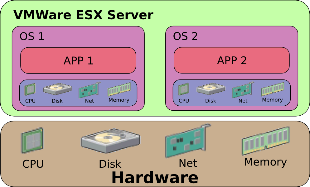 Diagram showing how VMware ESX Server operates: Like most other native hypervisors, it is installed on the hardware and hosts one or more instances of operating systems.